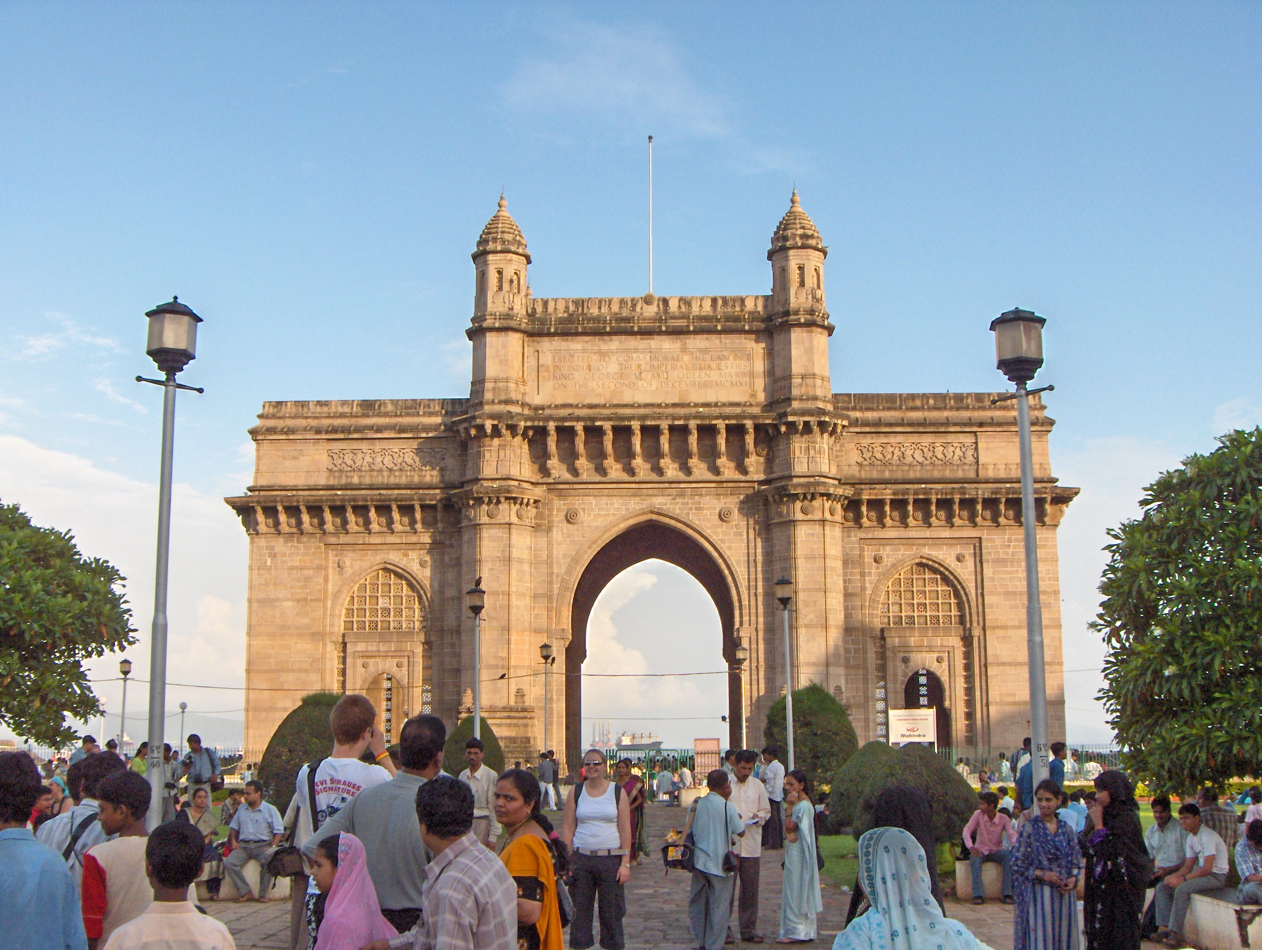 Gateway of India in Mumbai